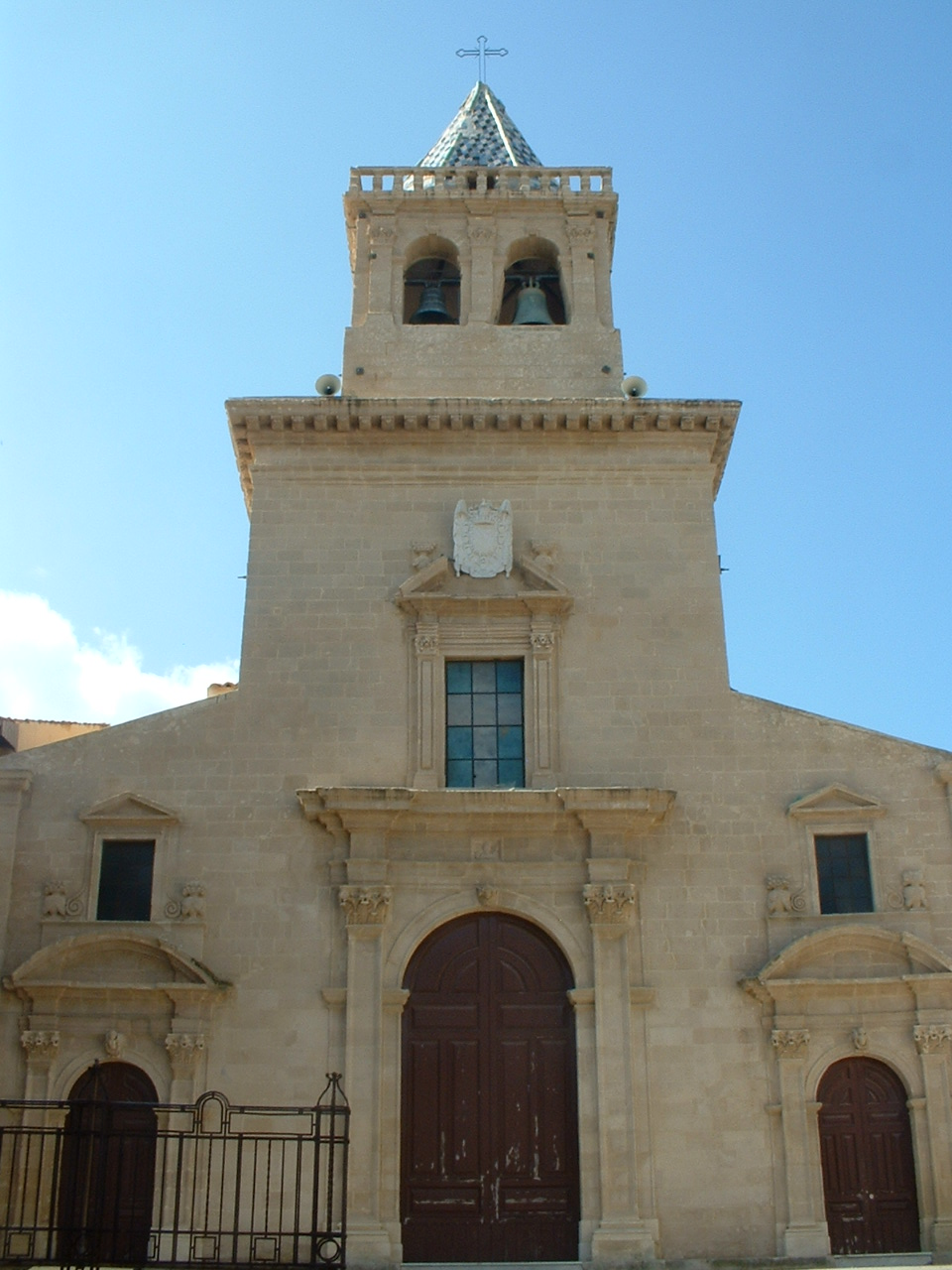 Francofonte, façade of the Chiesa Madre Sant'Antonio Abate (1699).